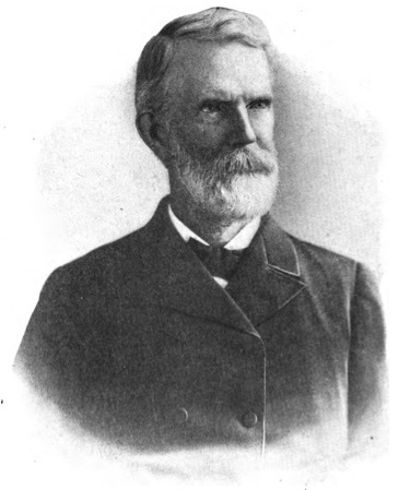 James Pyle Wickersham (March 5, 1825-March 25, 1891) was an American educator and author in the state of Pennsylvania . He also served as the US Chargé d'Affaires in Denmark in 1882.